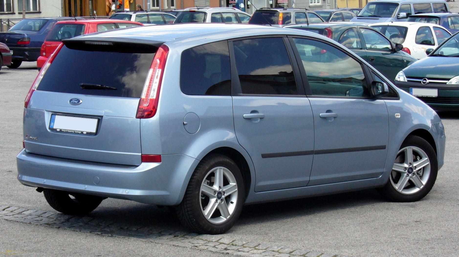 Ford C-MAX